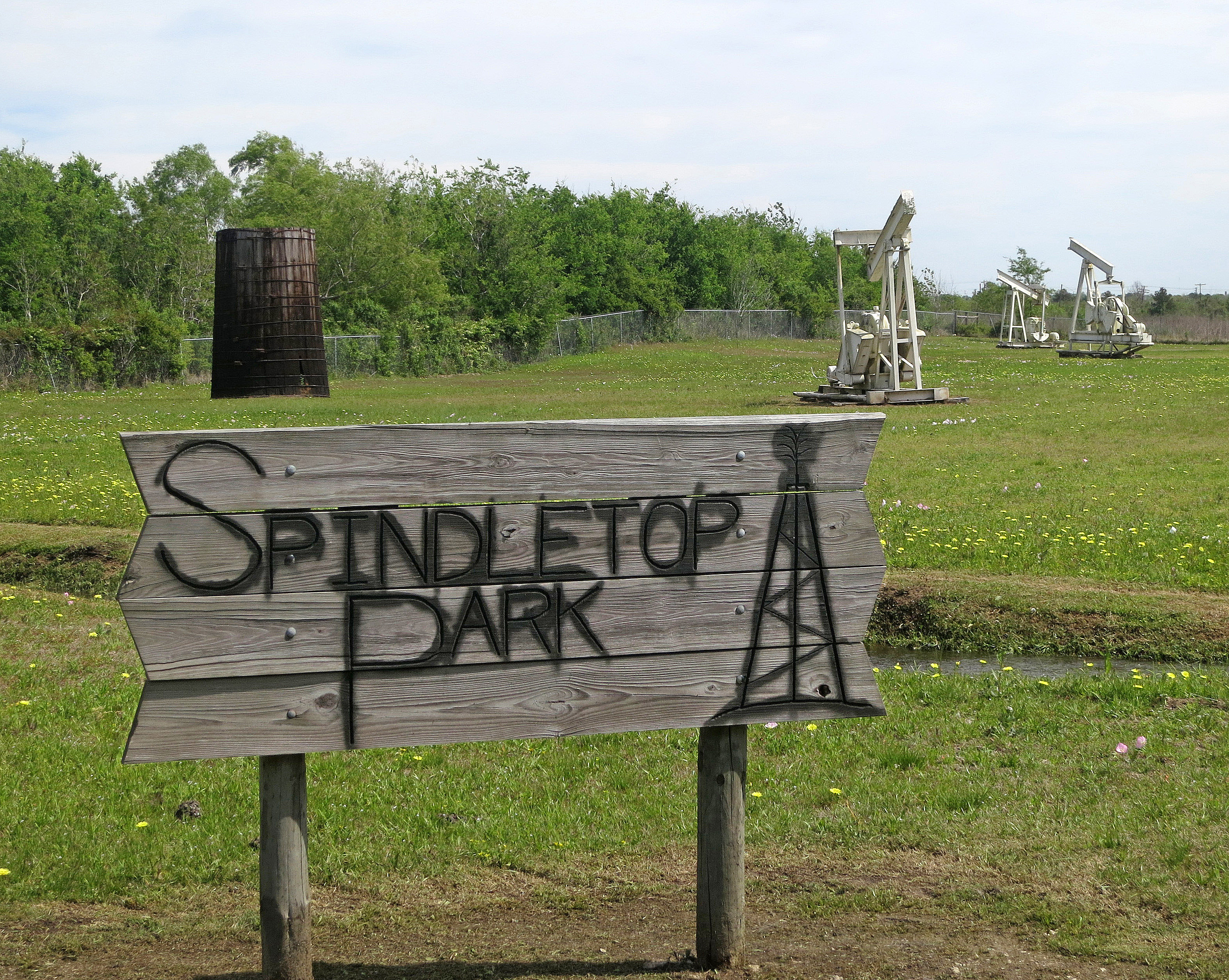 Spindletop monument, marker and museum are not located near where the famous well was. To see the well's actual location you must go to an obscure place called Spindletop Park. It's located near N 30° 02.064 W 94° 03.356